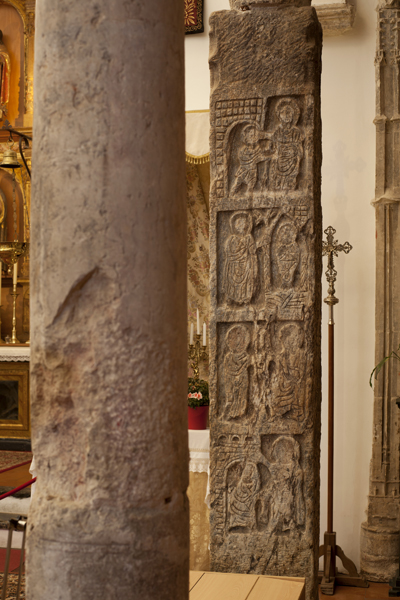 Iglesia del Salvador; Toledo, Castilla la Mancha, Toledo, Spain; La pilastra de El Salvador; ref: PM_079694_E_Toledo; Iglesia del Salvador; Photographer: Paul M.R. Maeyaert; © Paul M.R. Maeyaert; ; Cultural heritage; Europeana; Europe/Spain/Toledo